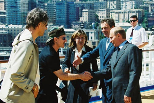 THE M/S EUROPEAN VISION, GENOA. President Vladimir Putin with British Prime Minister Tony Blair during a meeting with the leader of the Irish rock group U2, Bono, and Irish musician Bob Geldof.